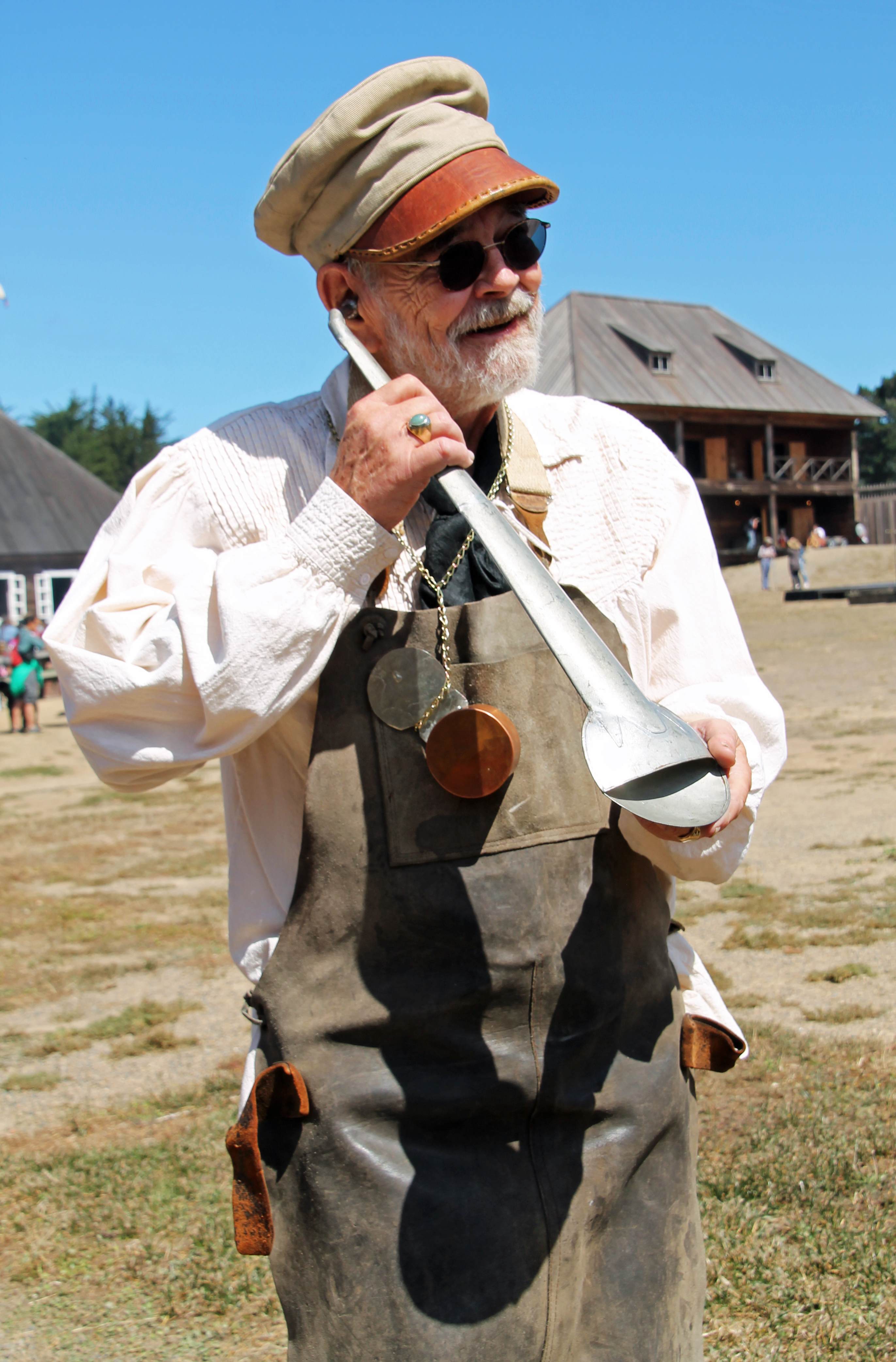 2015 Fort Ross Festival, Fort Ross State Historic Park, California